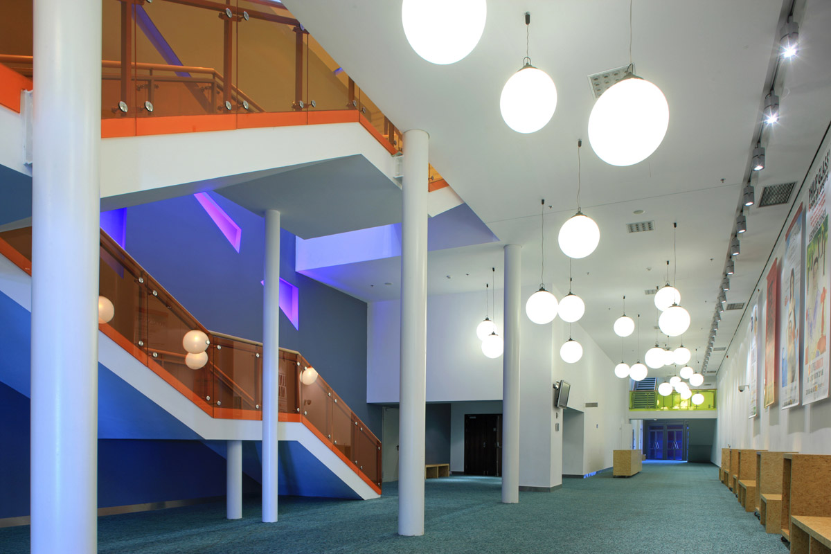 Athens Badminton Theater / Lower Foyer